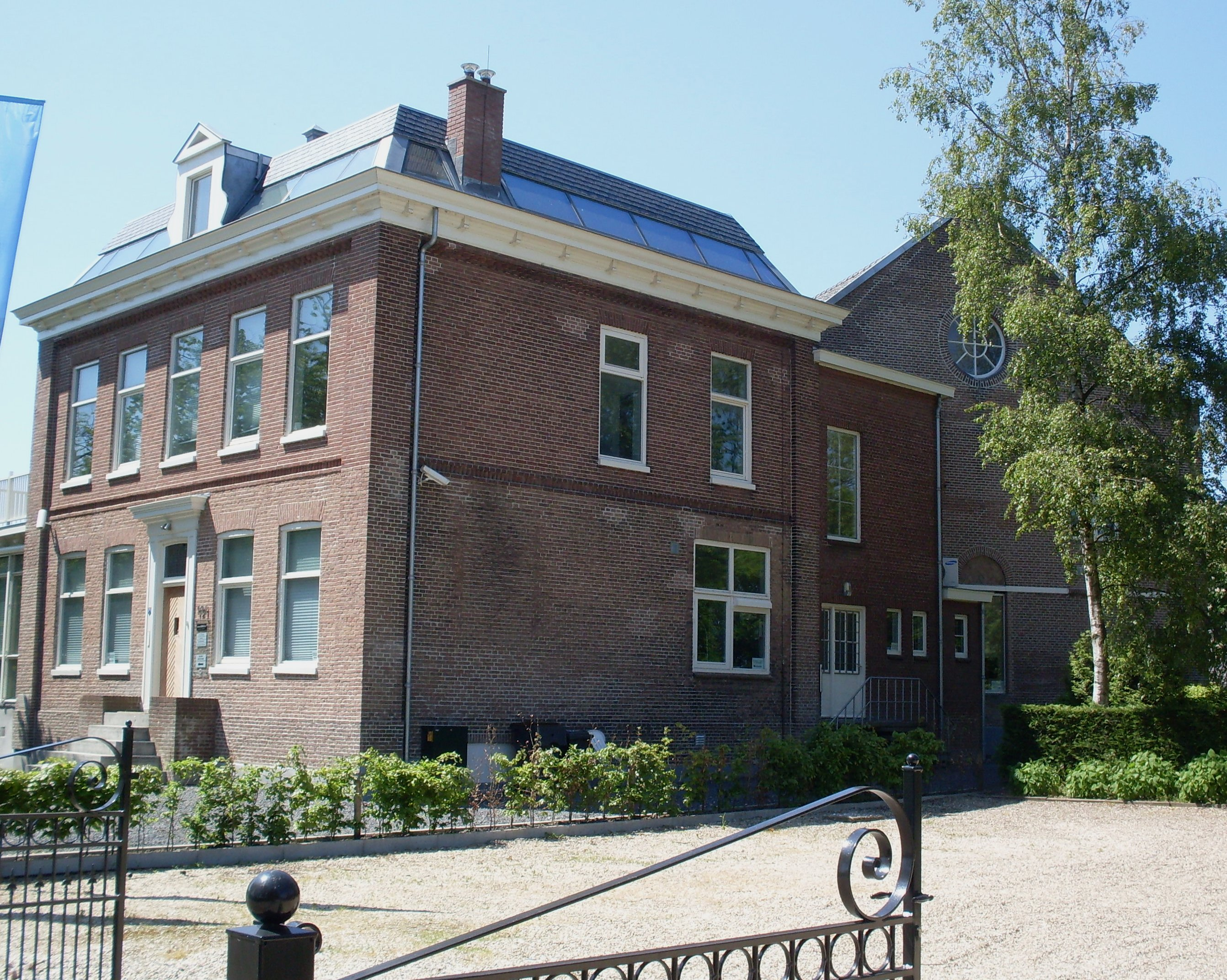 Schipholweg 641